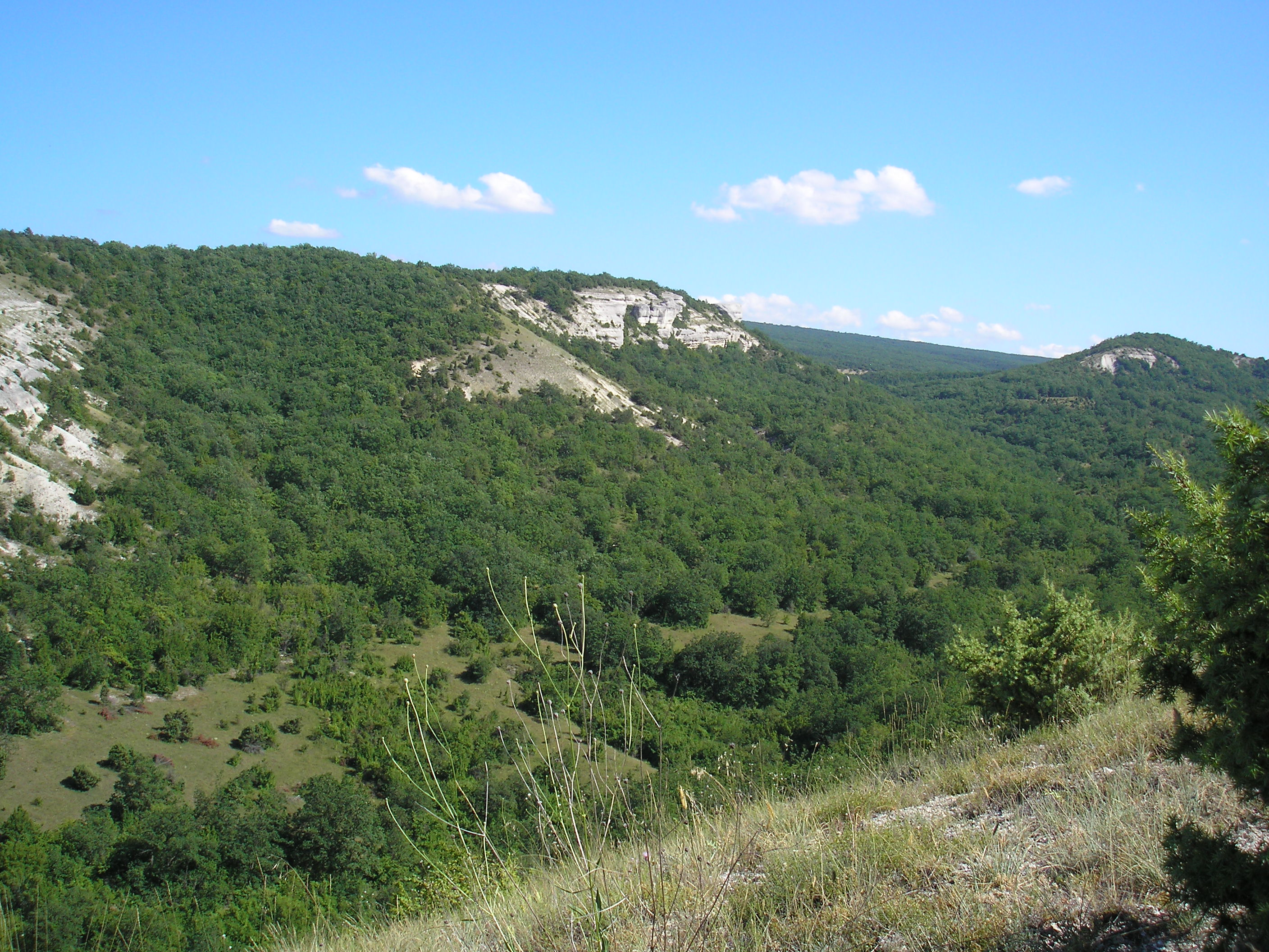 Shiblyak in the Crimean mountains